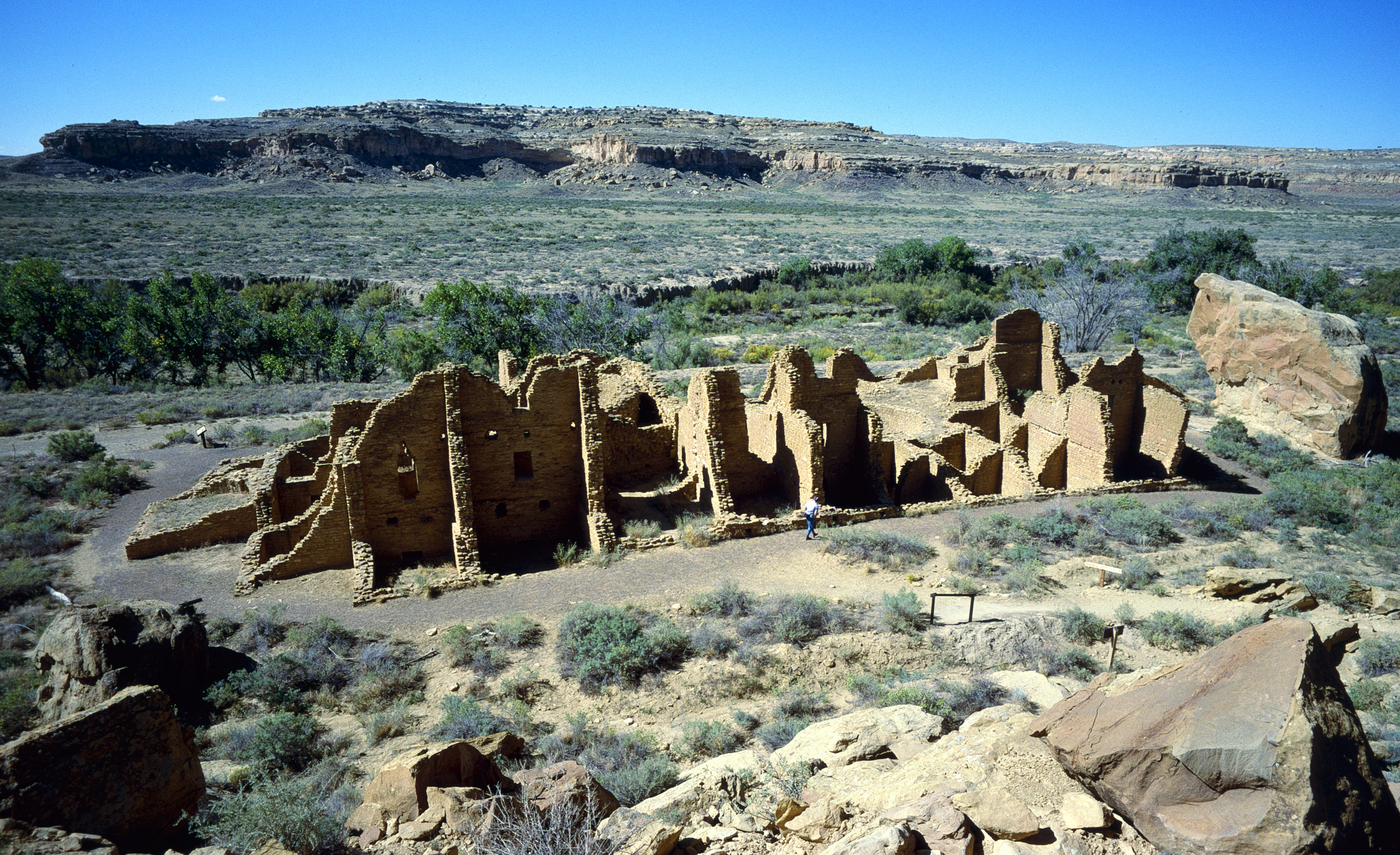 Kin Kletso, Chaco Canyon, New Mexico, U. S. A.